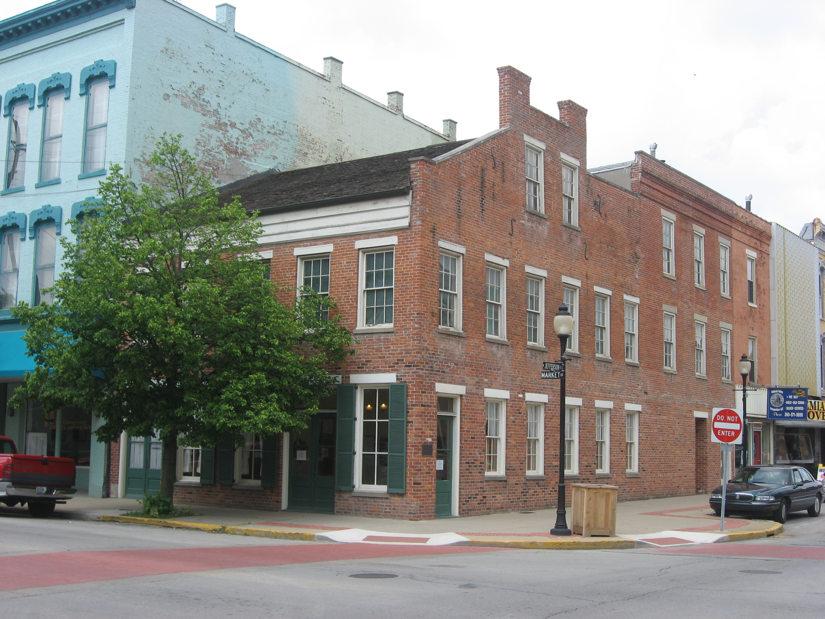 Front of the Moore/Carlew Building, located at 4-8 W. Market Street and 400-418 N. Jefferson Street in downtown Huntington, Indiana, United States. Built in 1844, it is listed on the National Register of Historic Places, and it is part of a Register-listed historic district, the Huntington Courthouse Square Historic District.